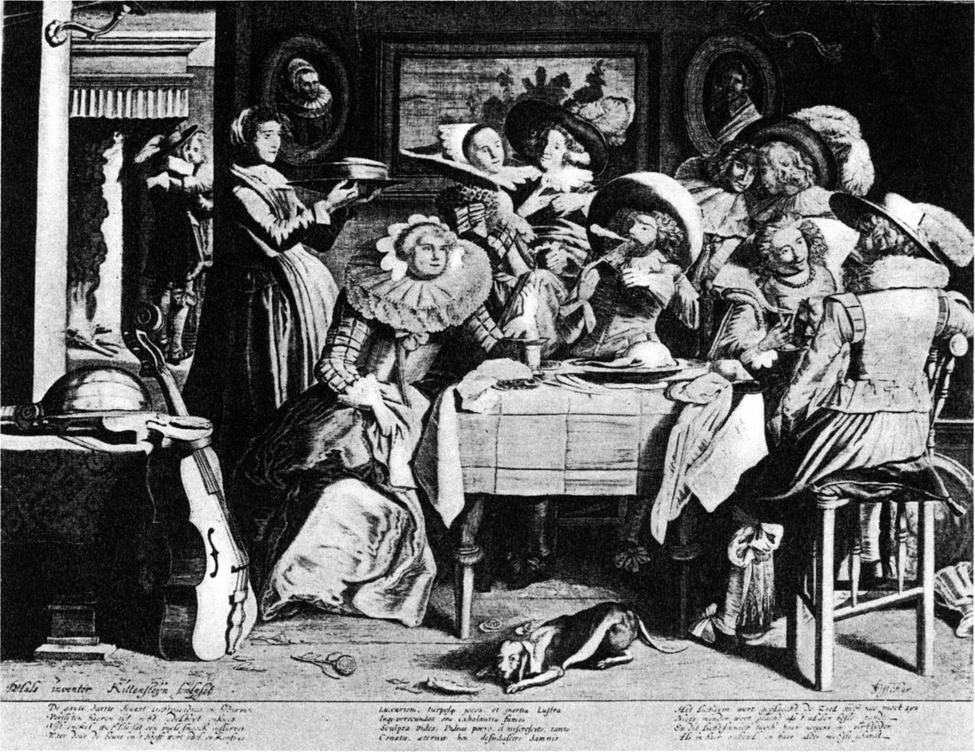 A party.